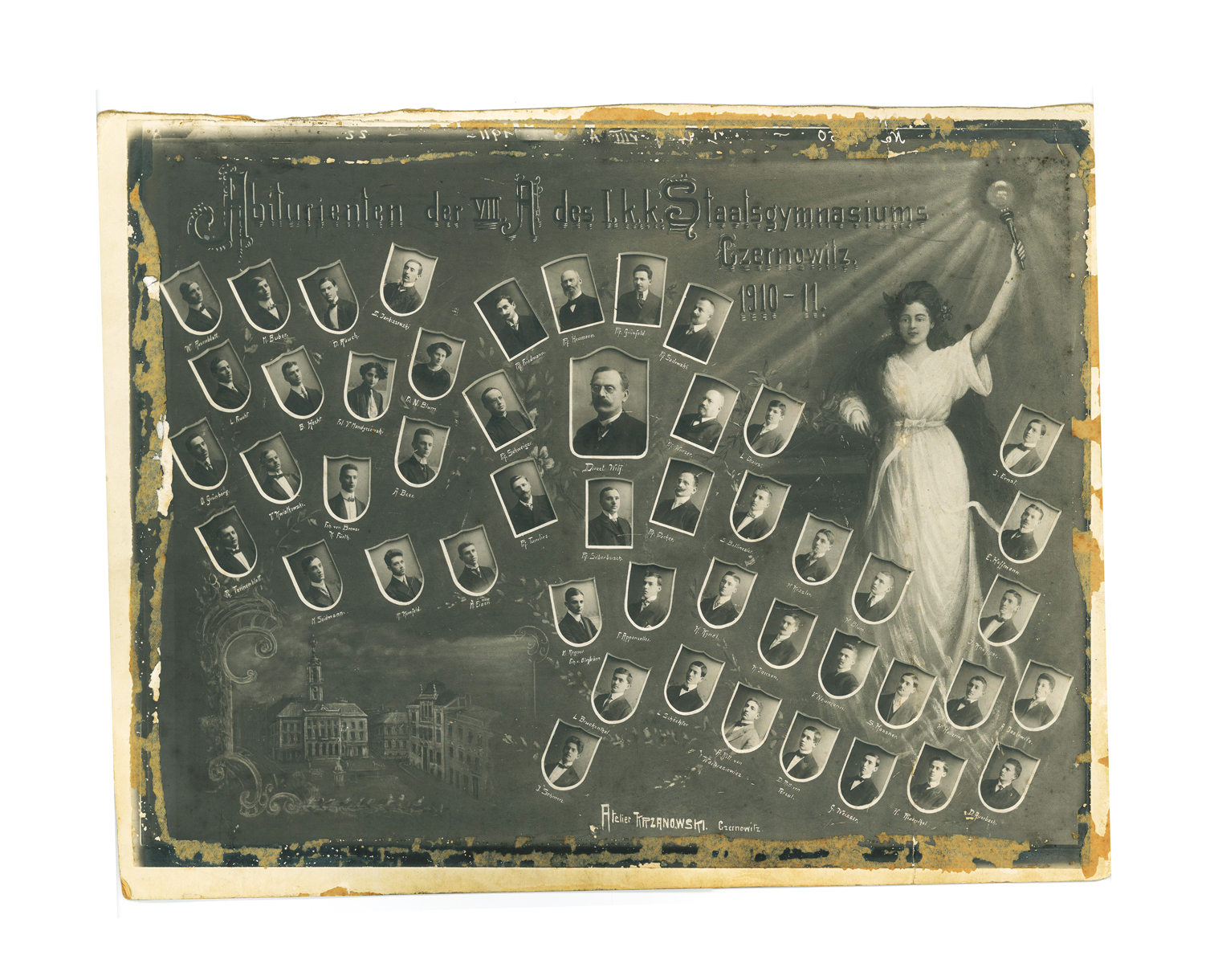 Group photo class of 1910-1911 Abiturienten- (Maturanten-) foto des Jahrgangs 1910-11 k. k. I. Staatsgymnasium Czernowitz